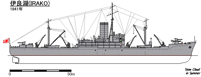 Line drawing of Japanese food supply ship Irako.